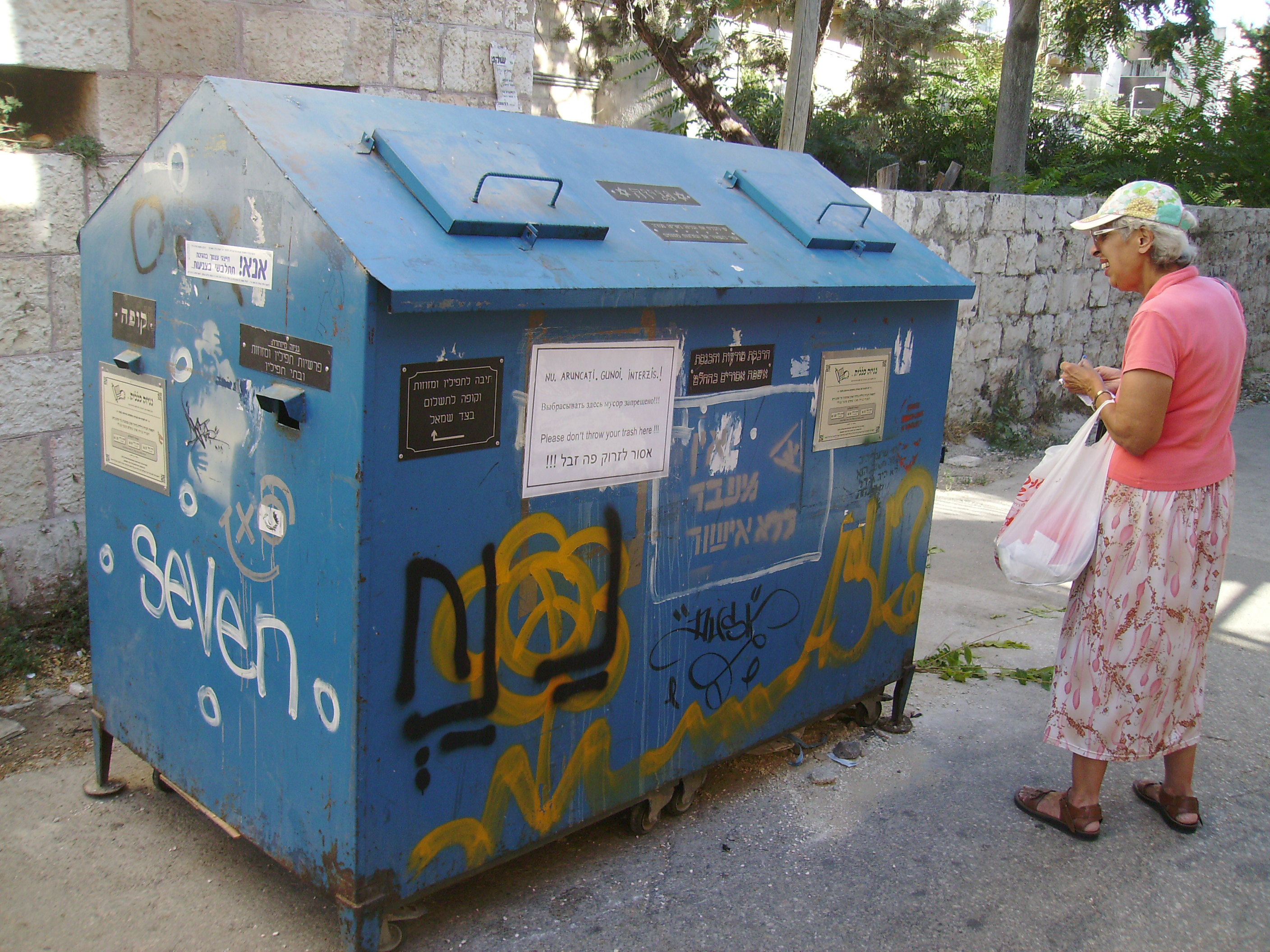 Geniza on street in Nahlaot, Jerusalem